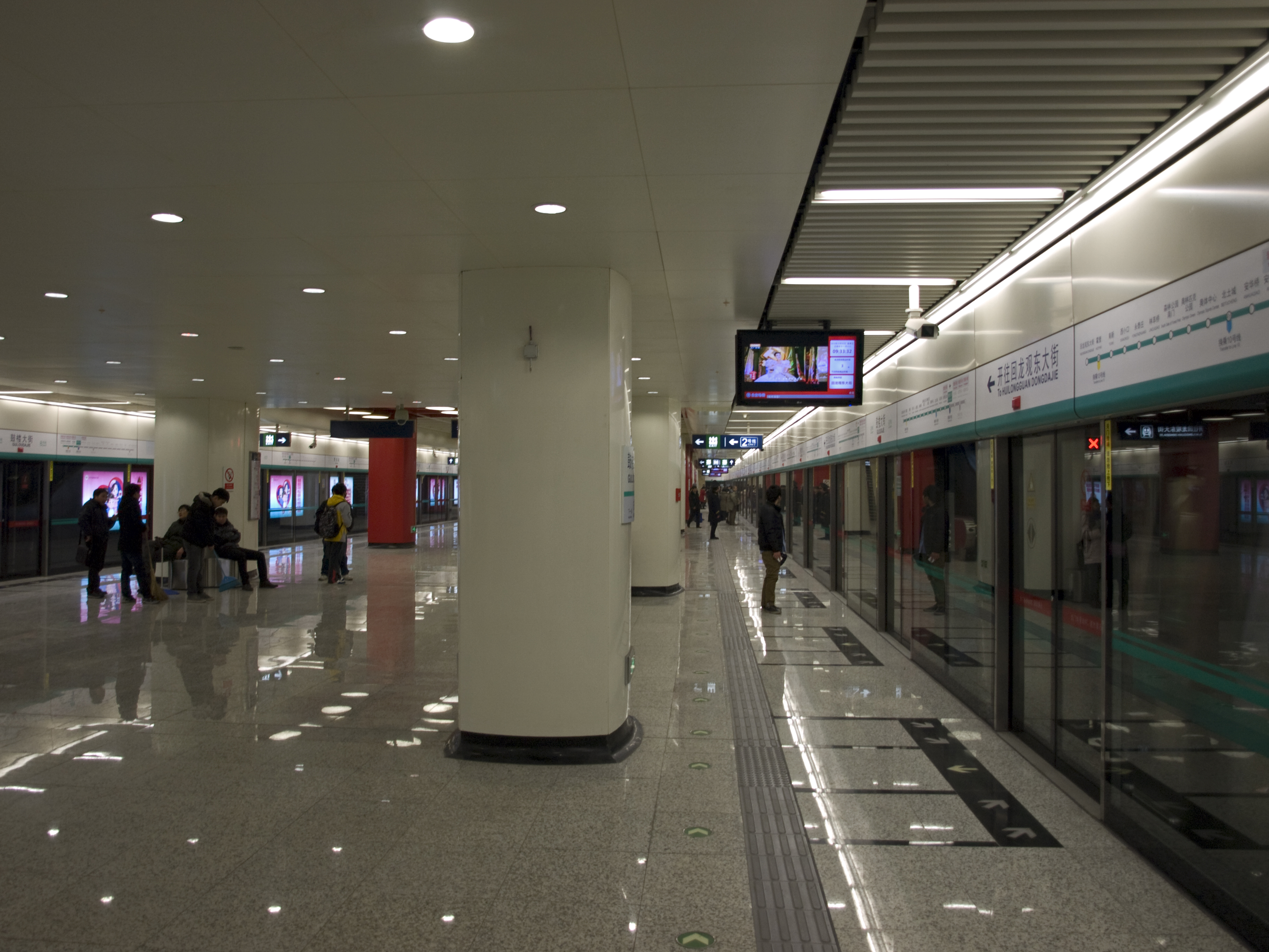 Guloudajie station, Line 8, Beijing Subway